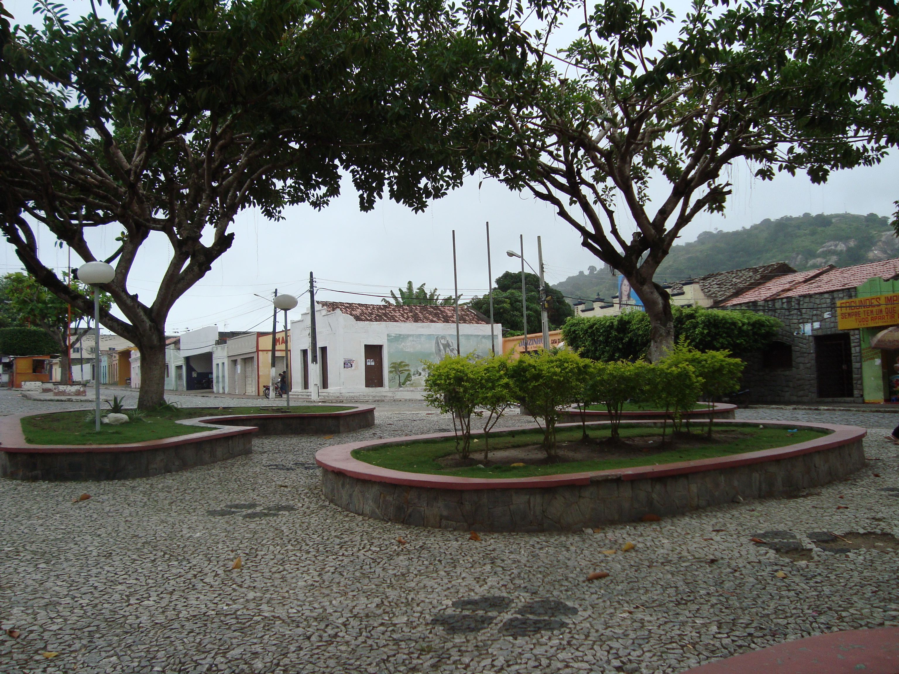 centro de fagundes-pb